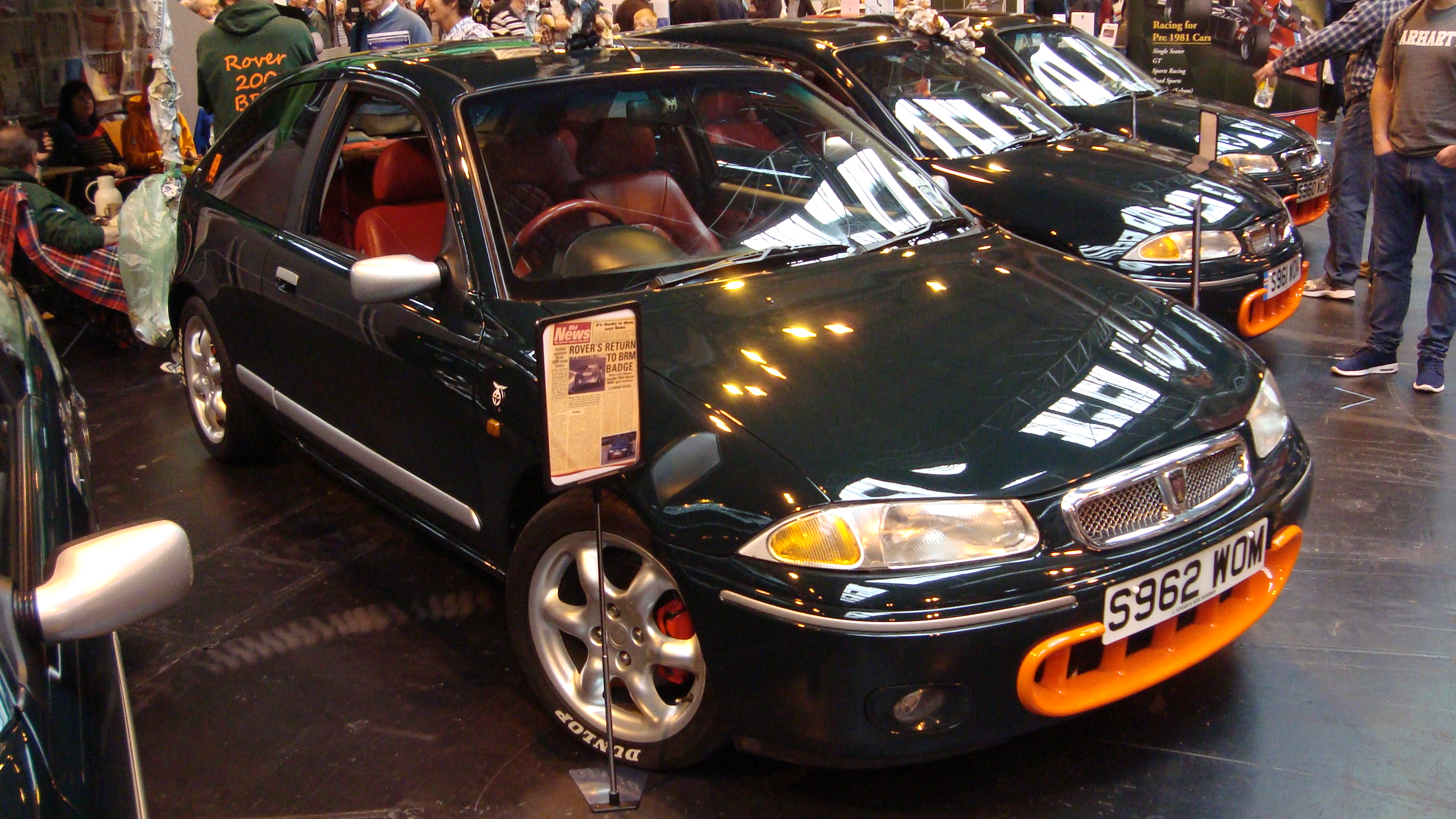 This was 1 of 4 BRM's on show